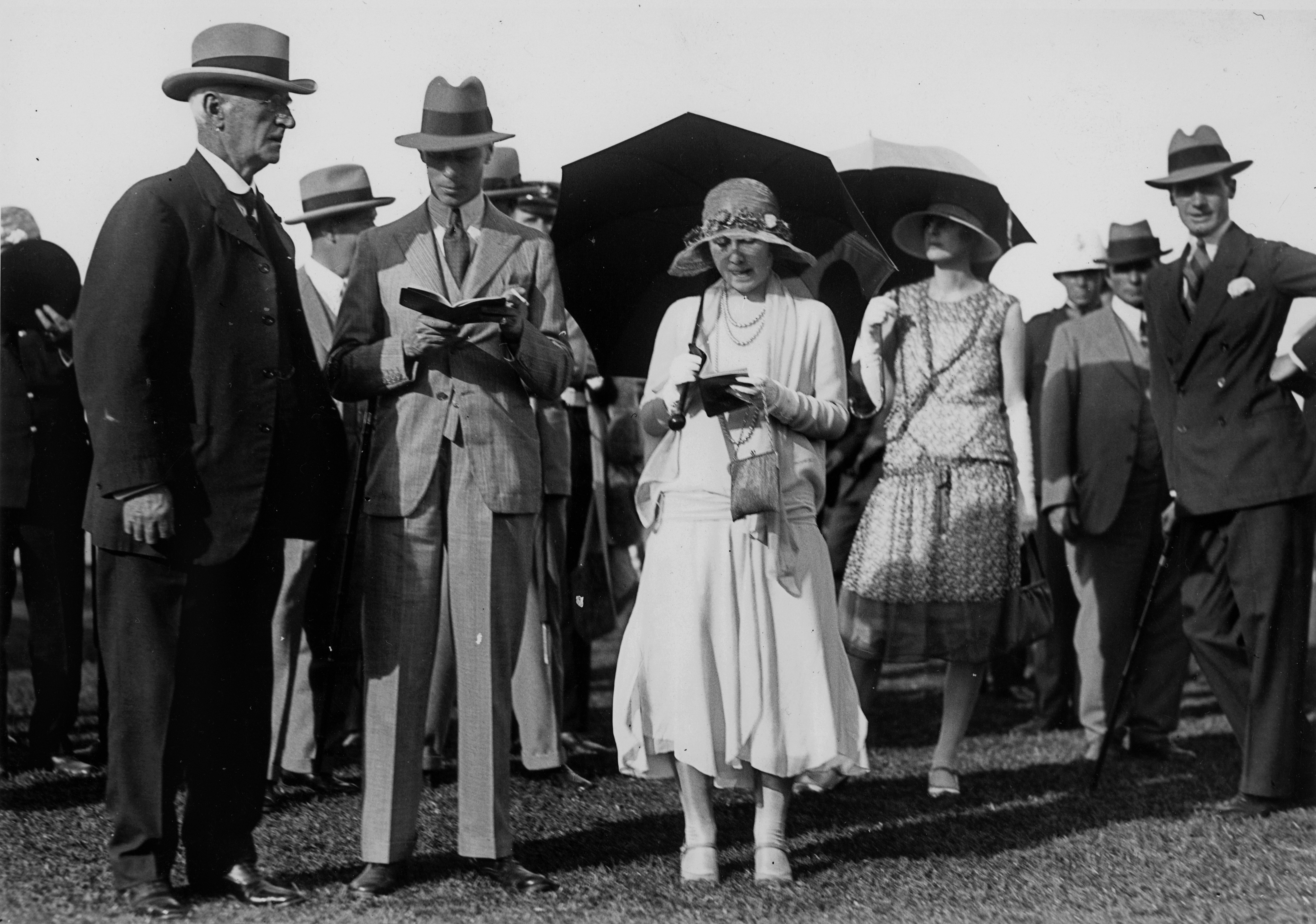 Duke and Duchess of York at Eagle Farm Racecourse, Brisbane, 1927 Duke and Duchess of York at Eagle Farm Racecourse for the running of the Duke of York Stakes, on Thursday 7 April 1927. Left to right: Mr C. A. Morris, Chairman of the Queensland Turf Club, the Duke, the Duchess, Mrs John Little-Gilmour and Lieutenant-Commander Colin Buist, Naval Equerry. At the back, on the left, is Inspector Hay of Scotland Yard. (Description supplied with photograph.).